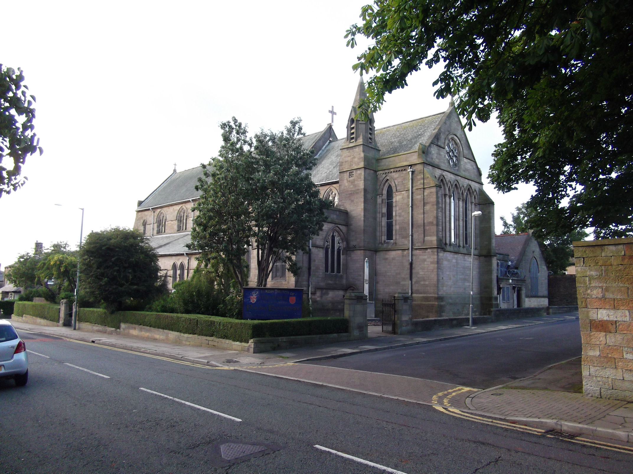 St Matthew's parish church, St Matthew Street, Burnley, Lancashire, seen from the south